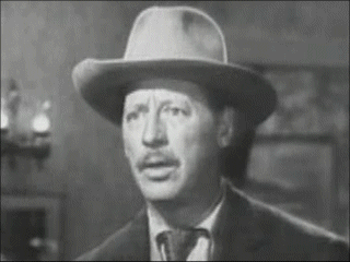 American actor Irving Bacon in the film The Bashful Bachelor (1942).